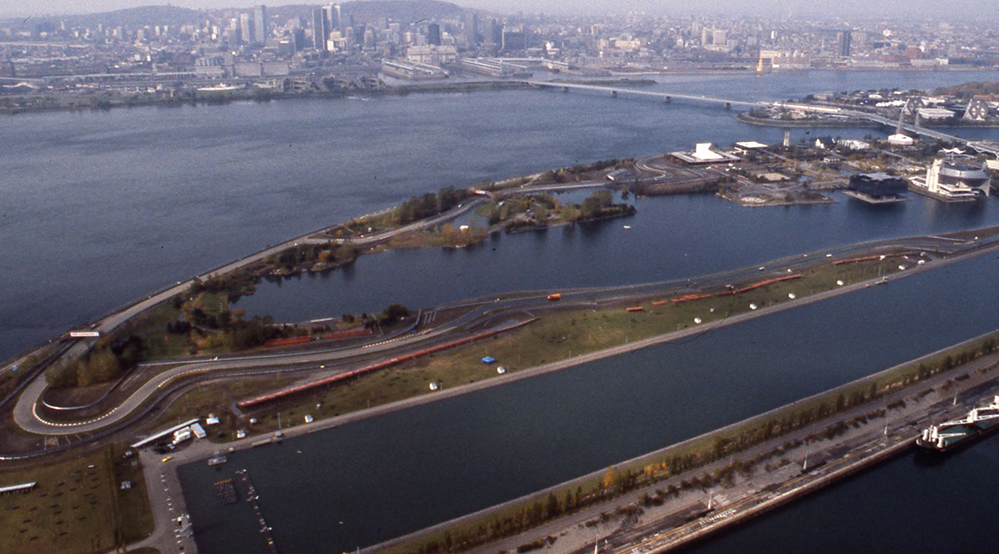 1978 marked the the introduction of Île Notre-Dame Circuit in the middle of the St. Lawrence river